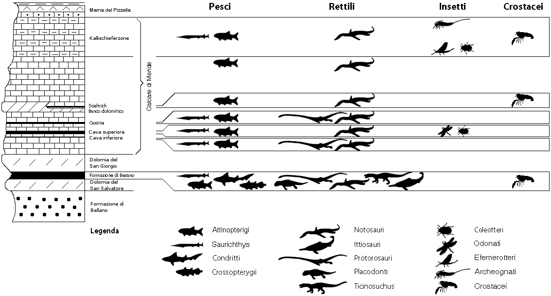 Stratigraphic section of the Middle Triassic sediments in the Monte San Giorgio area with the main fossil-bearing levels (modified from Furrer & Vandelli 2014; Furrer 1995, 2003; Stockar & Garassino 2013; Stockar et al. 2012; Bechtly & Stockar 2011; Renesto & Felber, 2007)